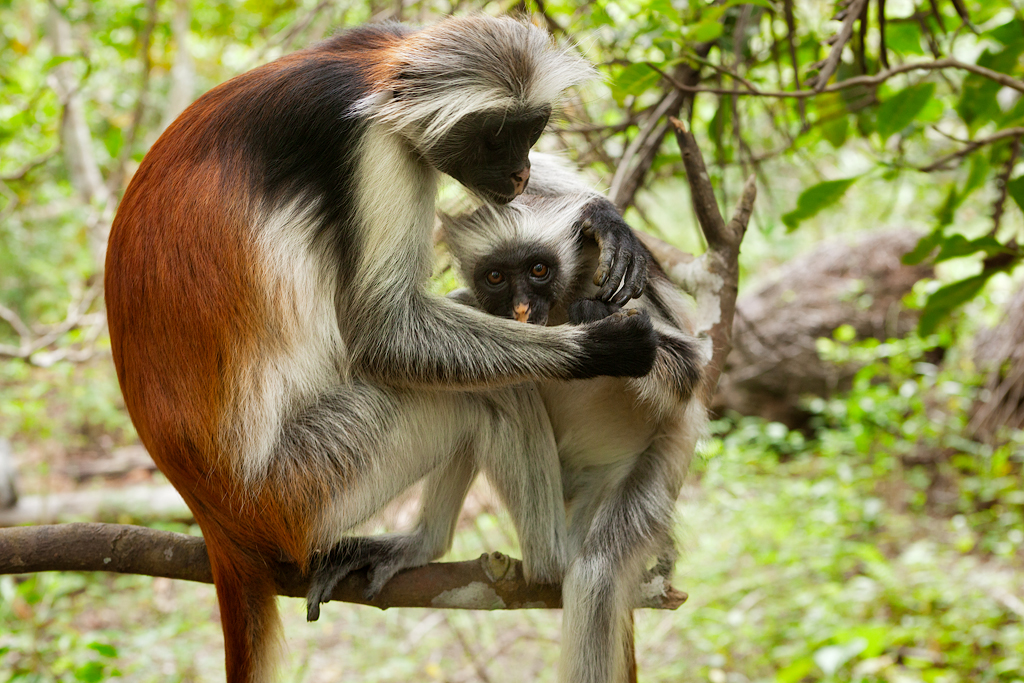 Mother and a cub of Piliocolobus kirkii